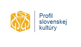 Portal is dedicated to all areas of culture and art, cultural heritage, natural beauty and tourist attractions in Slovakia.